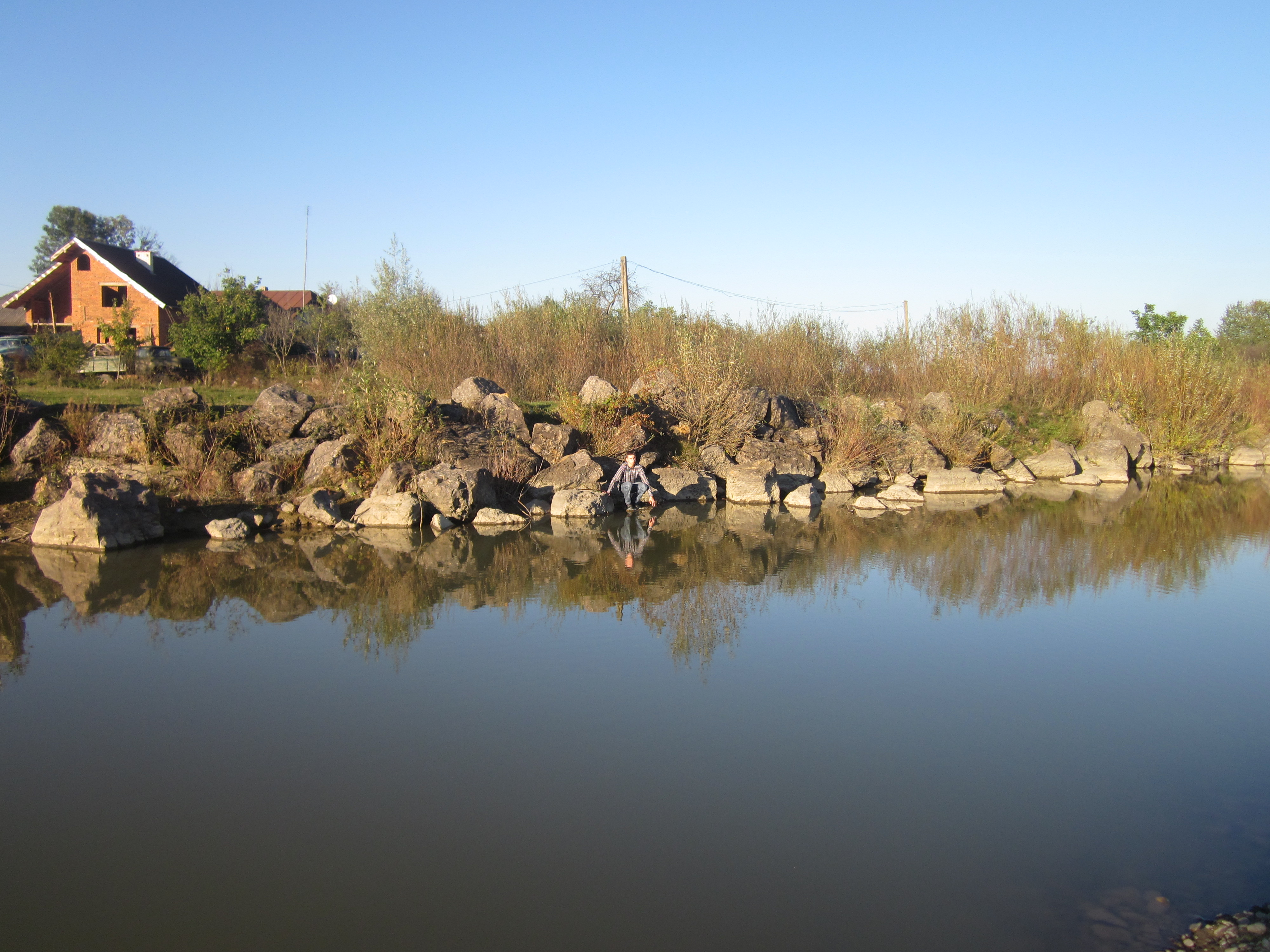 річка Луква біля села Комарів